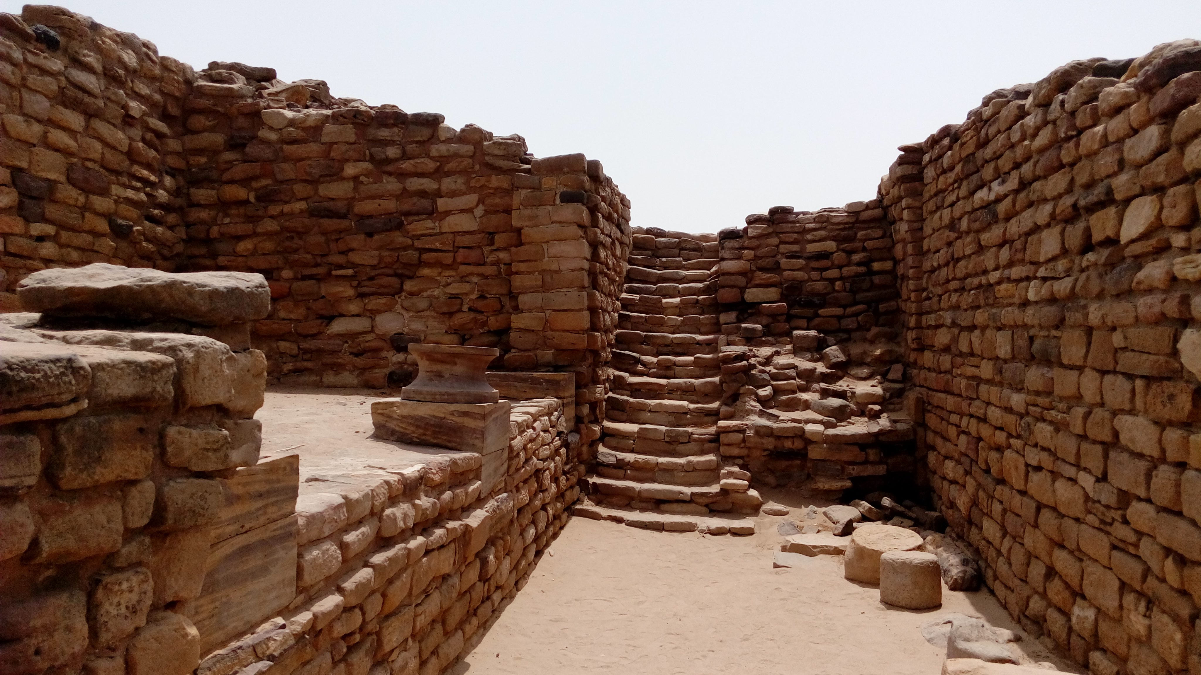 East Gate of Dholavira, Indus Valley Civilization site in Gujarat, India